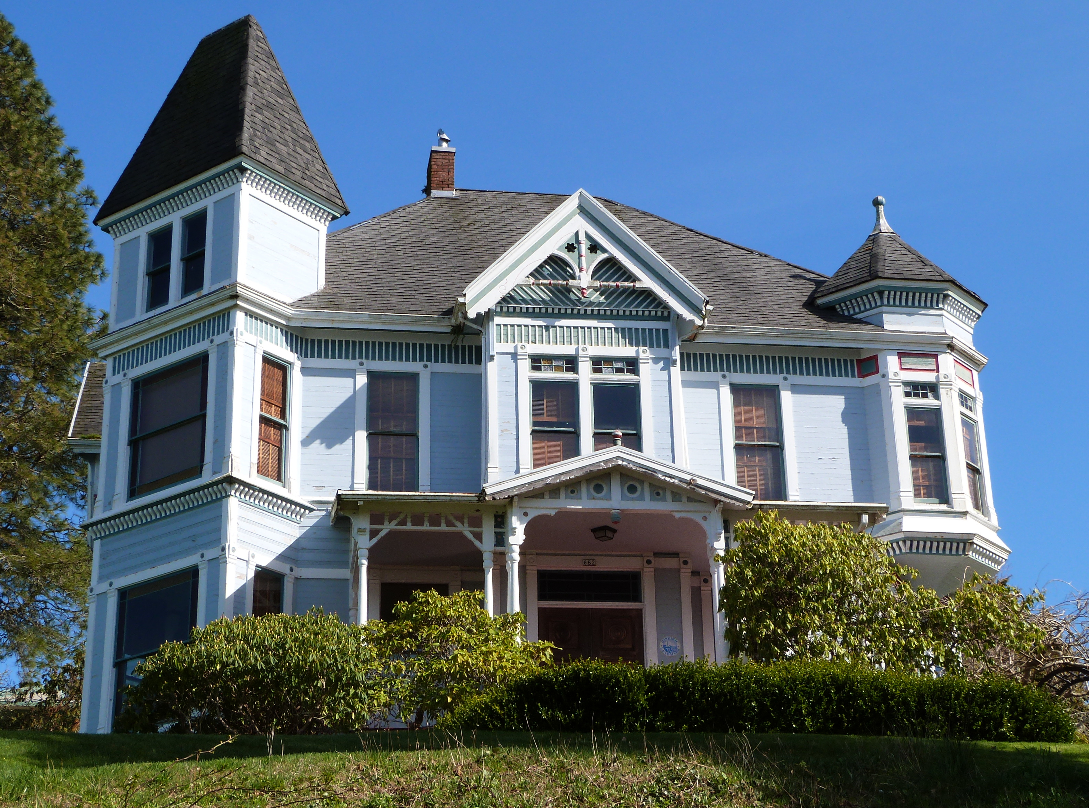 The historic Gustavus Holmes House (built 1892), located at 682 34th Street in Astoria, Oregon, United States, is listed on the US National Register of Historic Places.